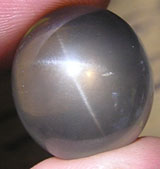 I took this photo at a gem show.